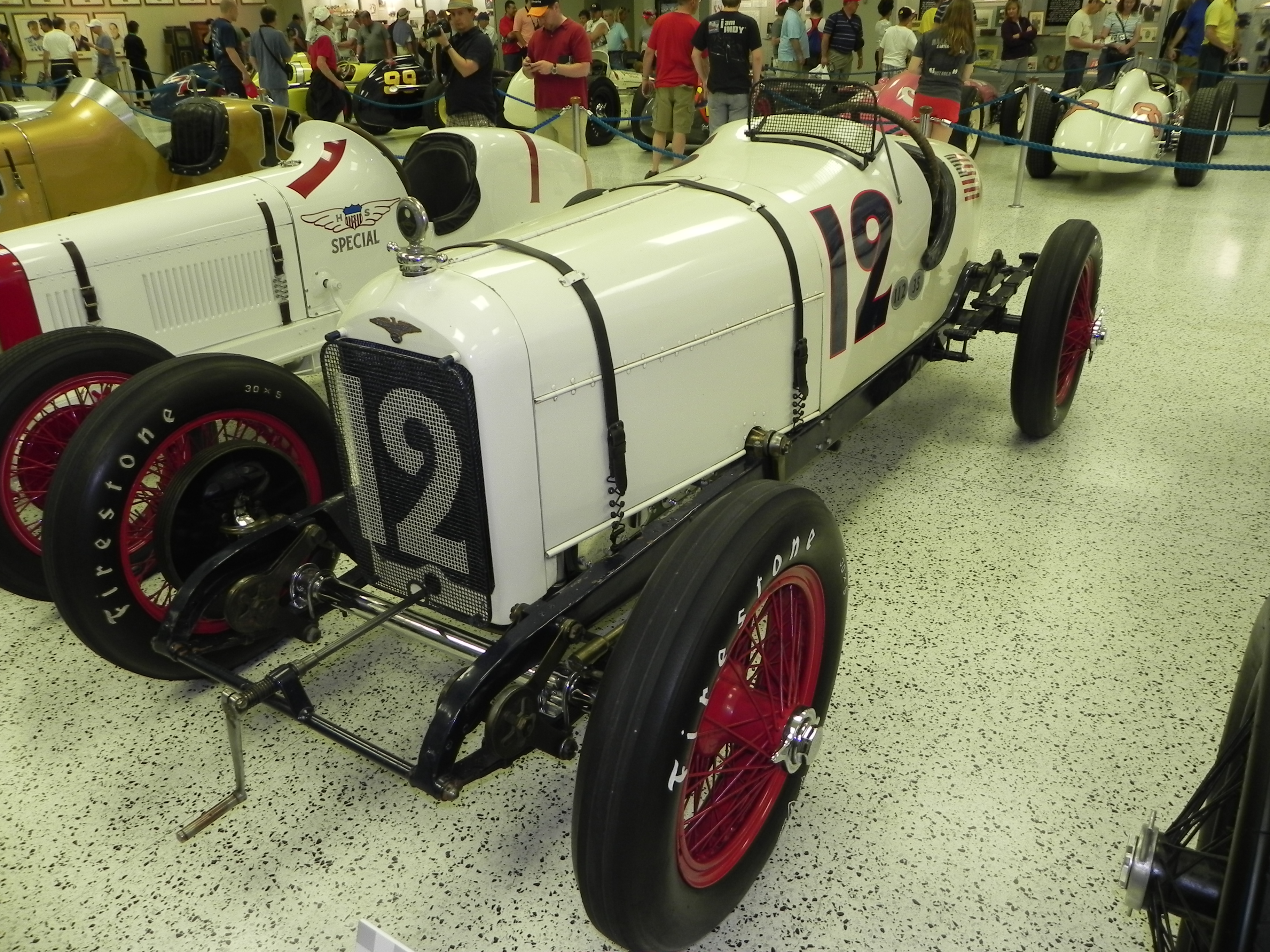 Image of the winning car of the 1922 Indianapolis 500 (Jimmy Murphy). Photo was taken at the Indianapolis Motor Speedway Hall of Fame Museum, during the month of May 2011, at the 100th Anniversary "Ultimate Indianapolis 500 Winning Car Collection."